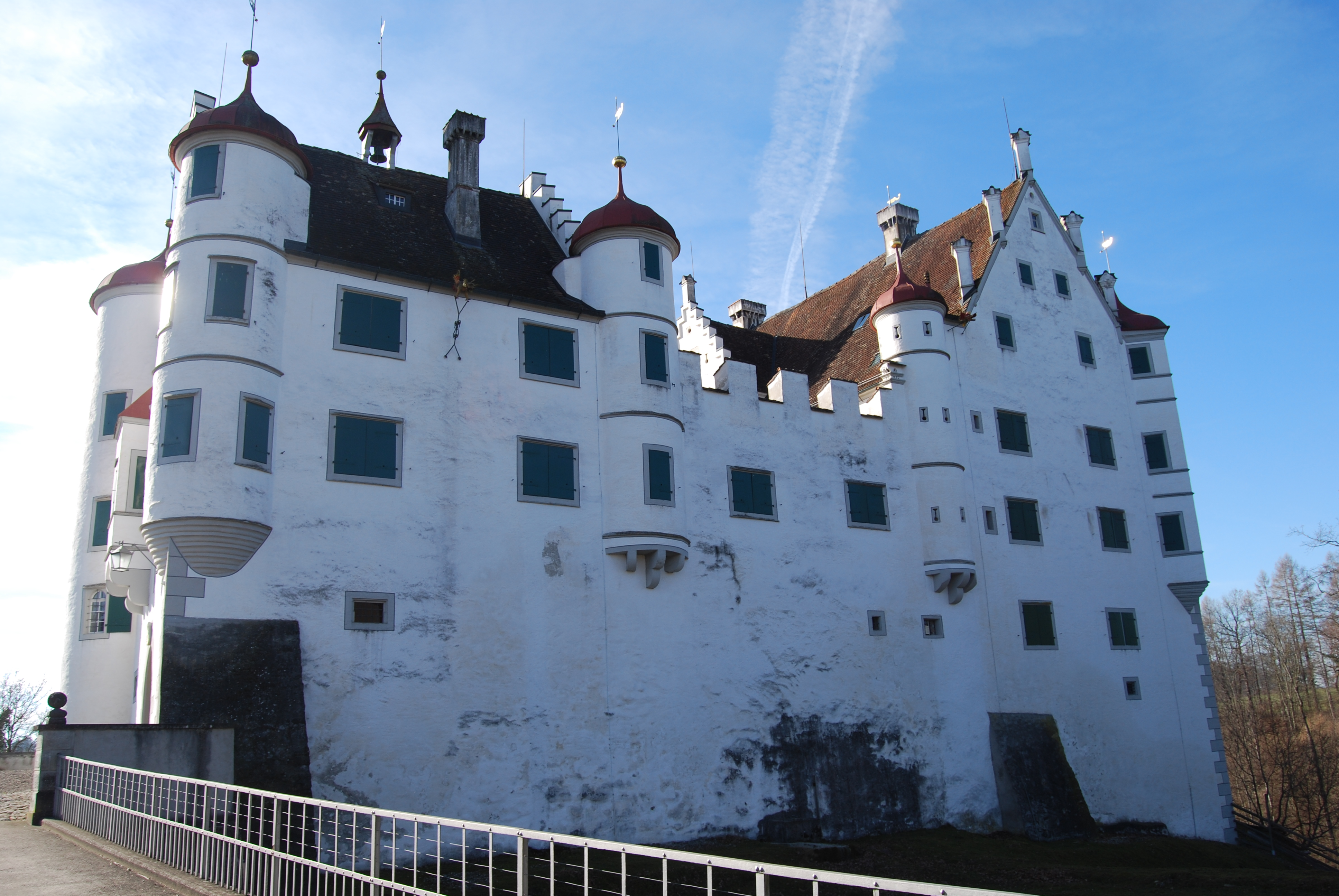 Castle Altenklingen, municipaity of Wigoltingen, canton of Thurgovia, Switzerland